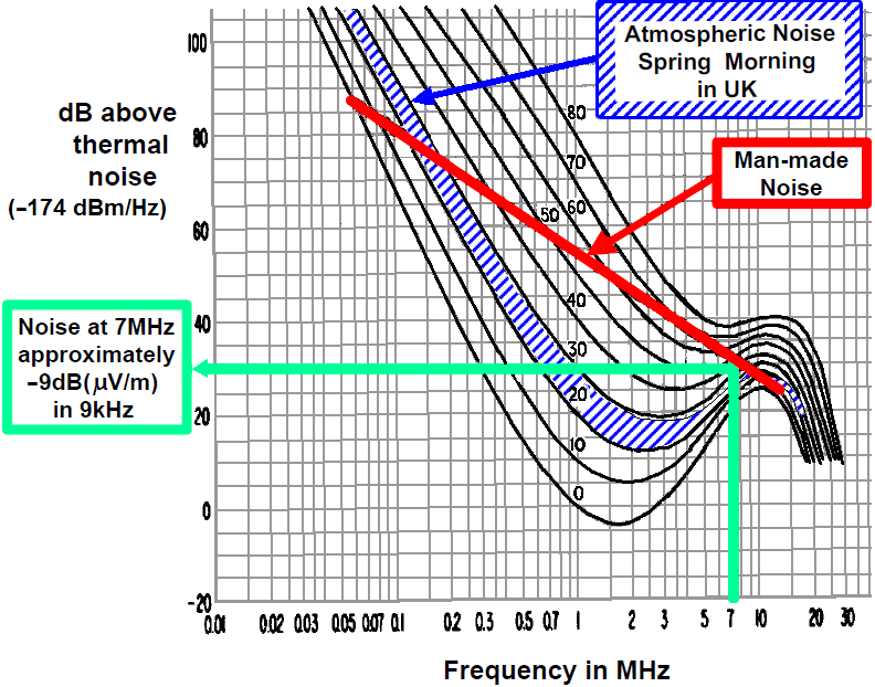 Amount of atmospheric noise for LF, MF, and HF spectrum according CCIR322 - with overlaid lines added by G3JWI for published presentation on behalf of RSGB.